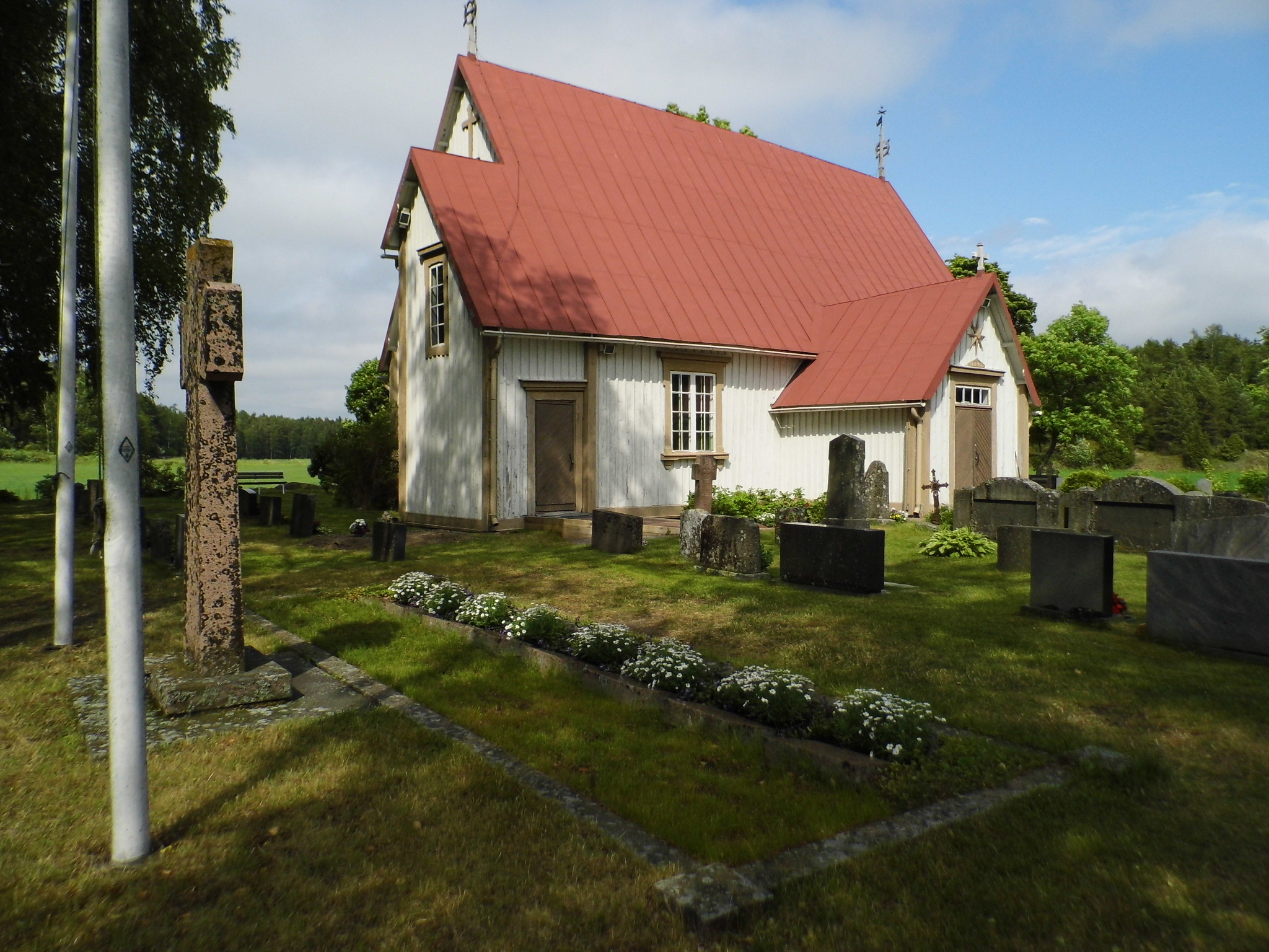 Military cemetary at church in Velkua, Finland